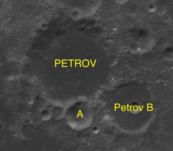 Part of the chart LAC-129 used for the presentation